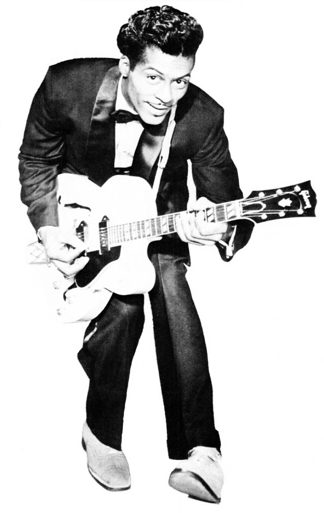 Trade ad for Chuck Berry's single "Johnny B. Goode". To better adapt it to his respective Wikipedia article, the ad was cropped and cleaned in a graphics editing program. The original can be viewed at the source below.